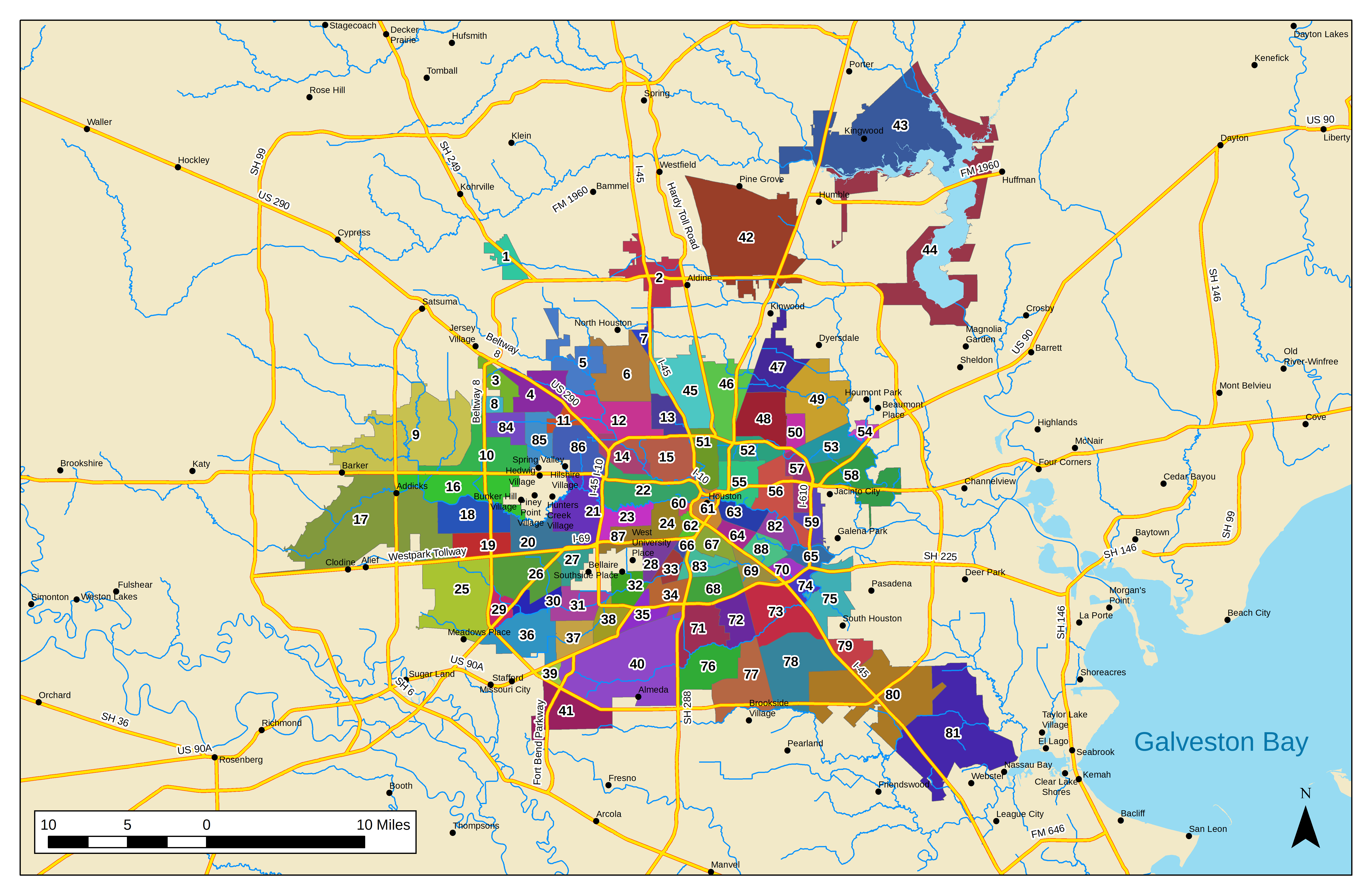 A map of the super neighborhoods of Houston, Texas, as defined by the City of Houston at